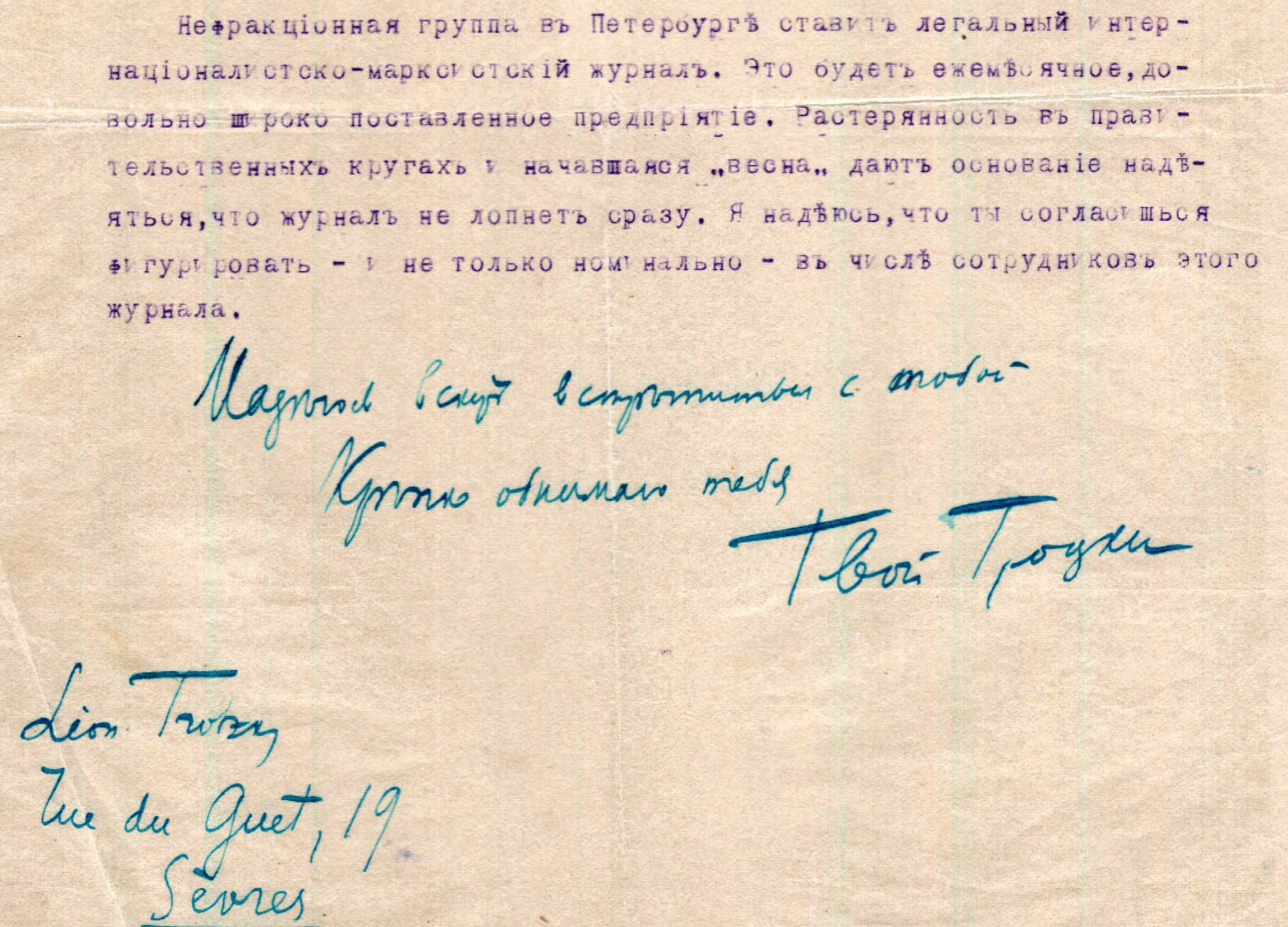 Letter from Leon Trotsky to Christian Rakovsky, signed, Paris-Sevr, about 1915